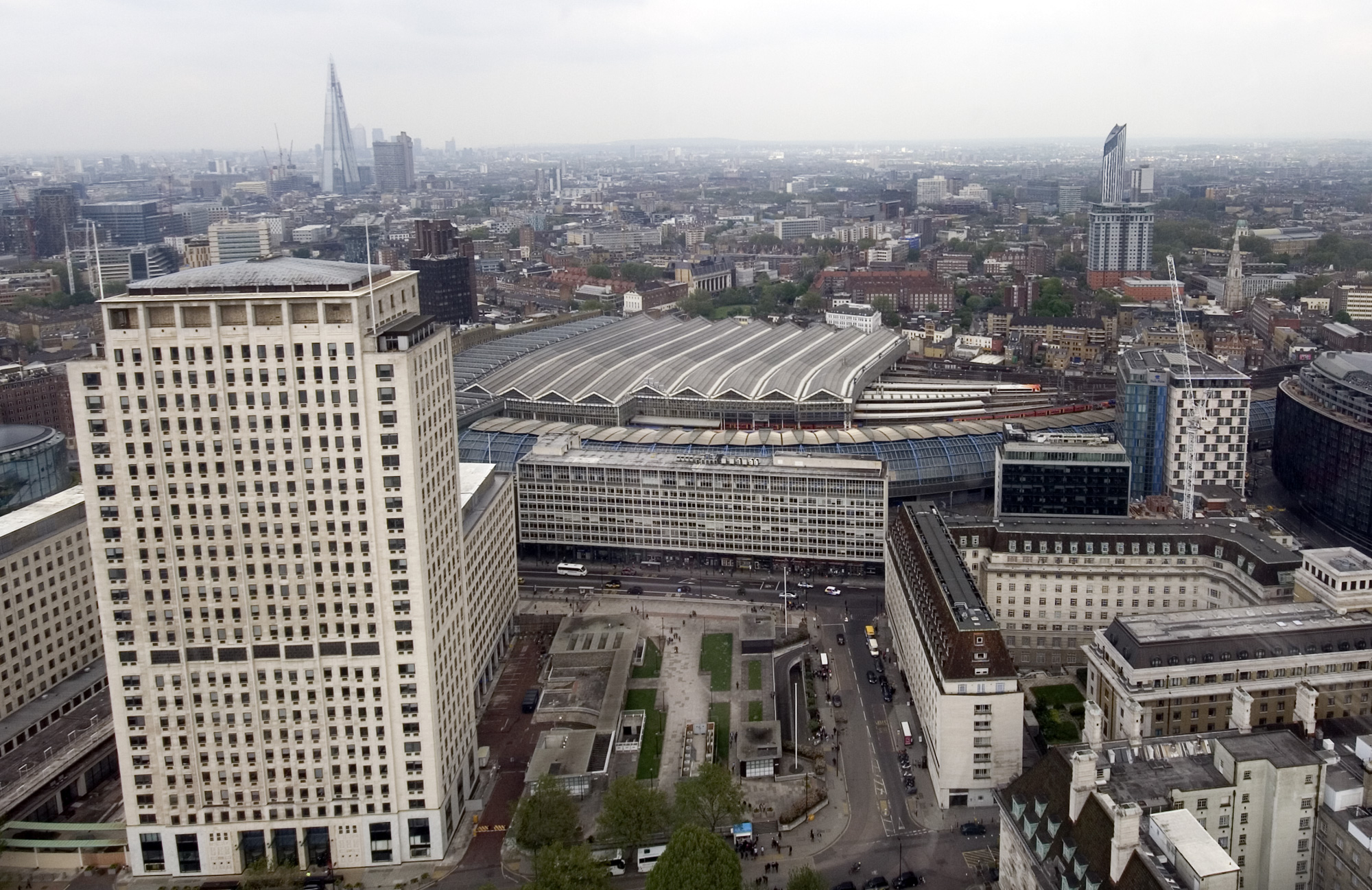 London Waterloo station and vicinity